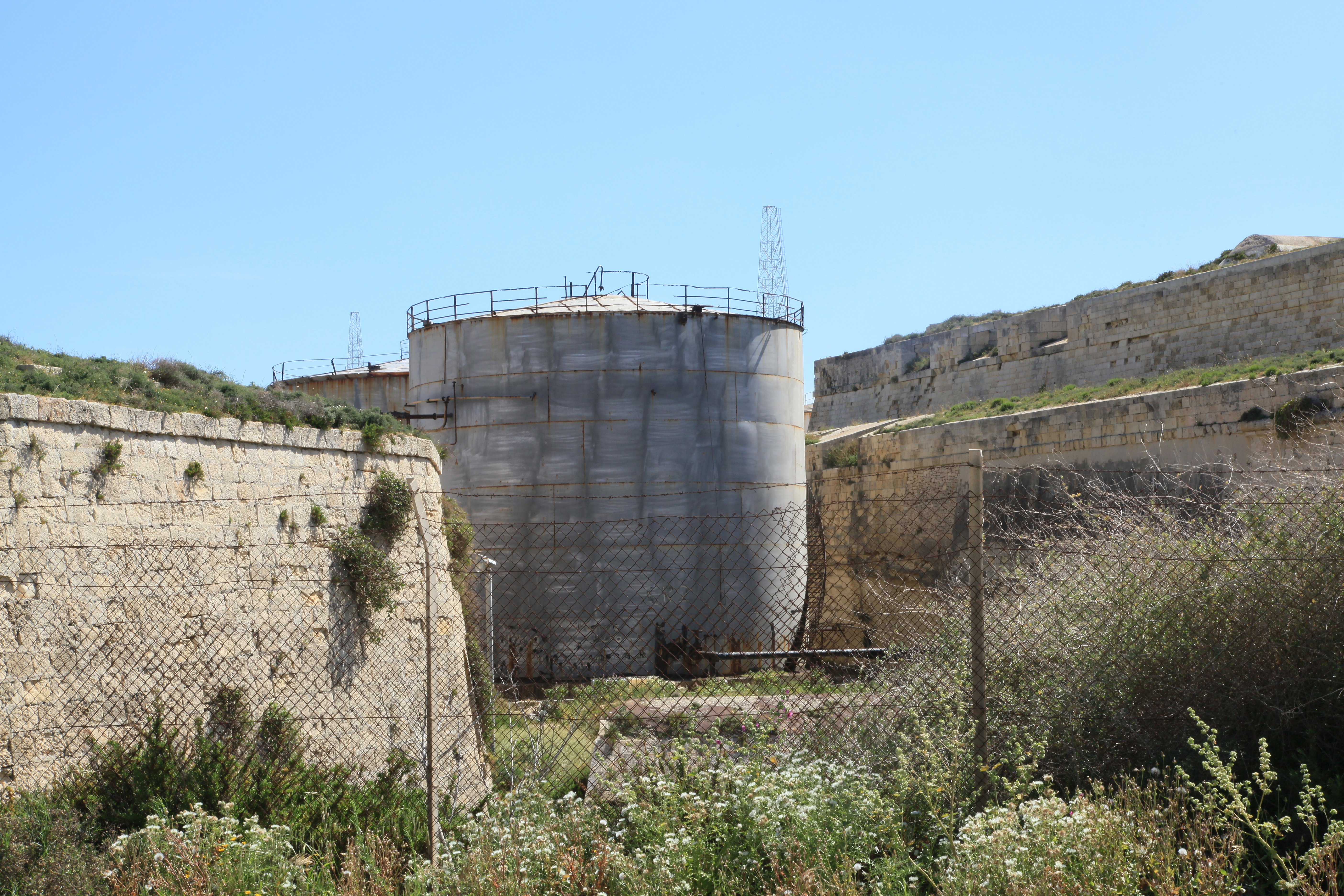 Oil tank at a very unsuitable location, Fort Ricasoli at Triq Santu Rokku in Kalkara, Malta